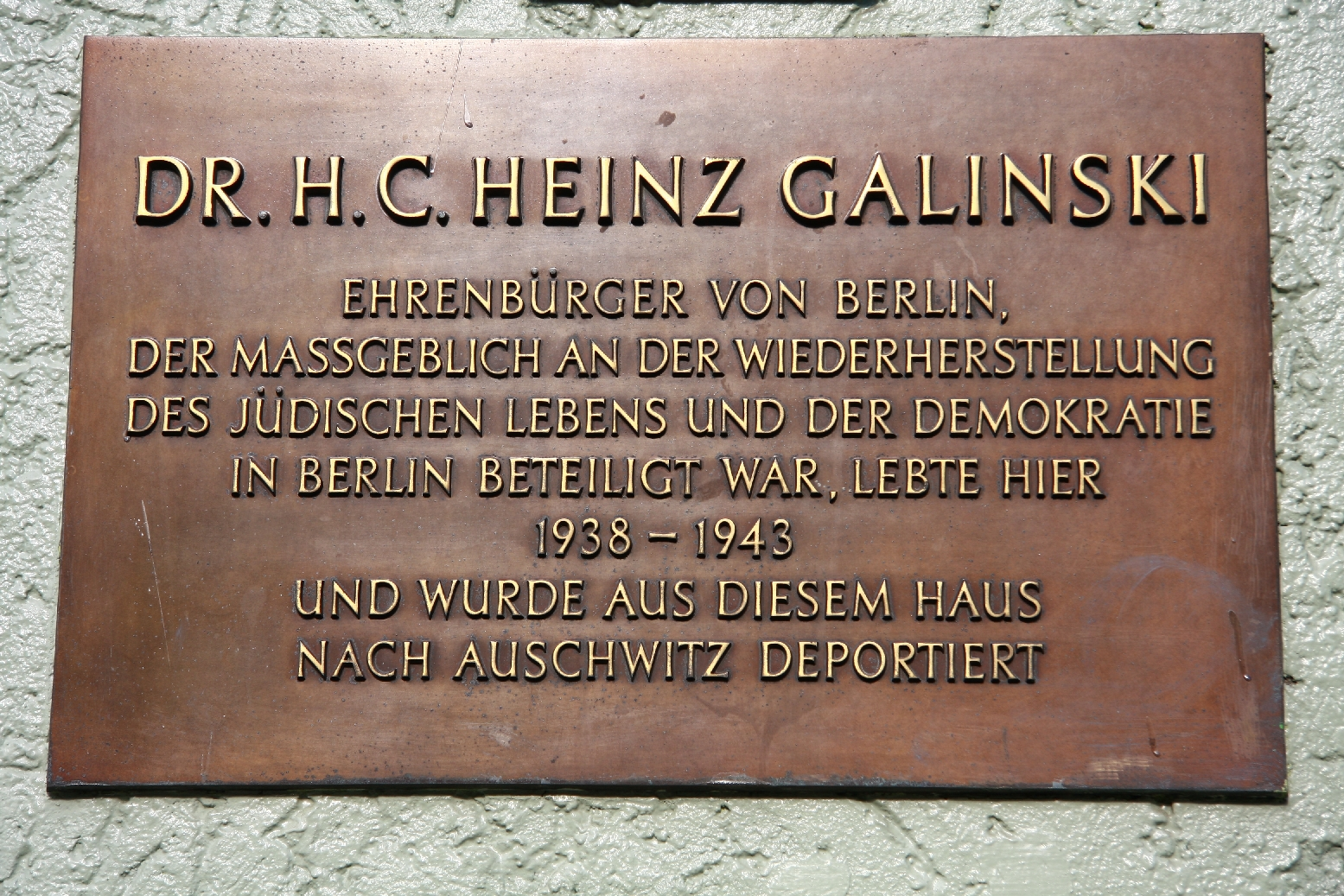 Commemorative plate for Heinz Galinski at the Schönhauser Allee in Berlin. He was deported from there to Auschwitz concentration camp in 1943.